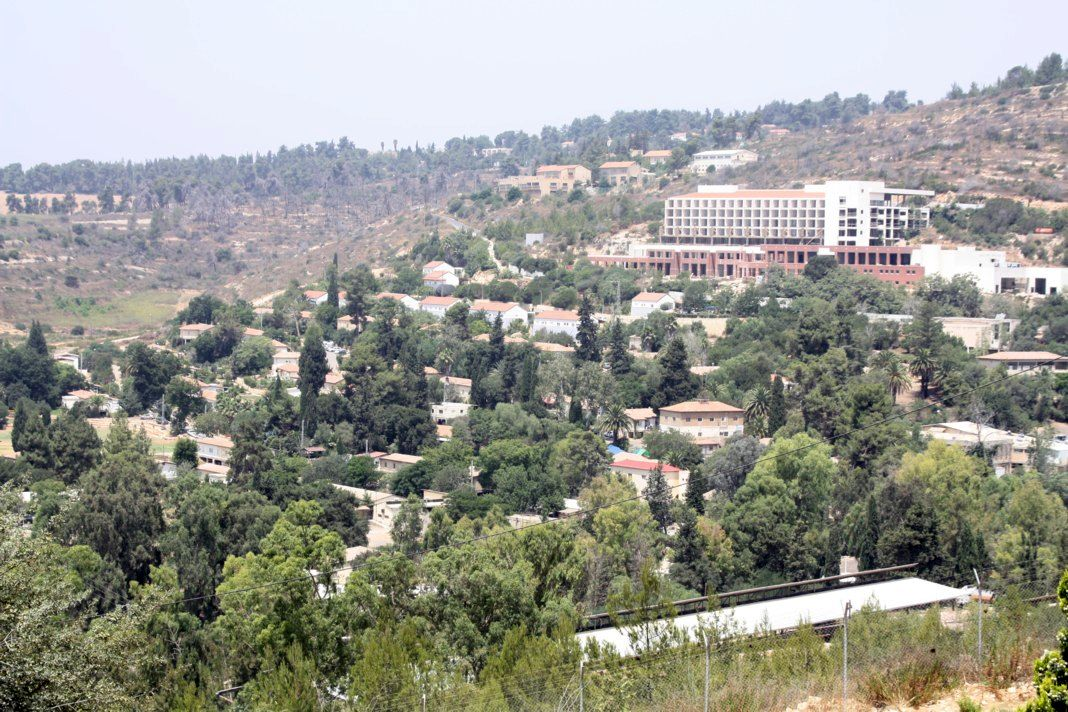 Kiryat Anavim, as seen from Beit Nekofa.